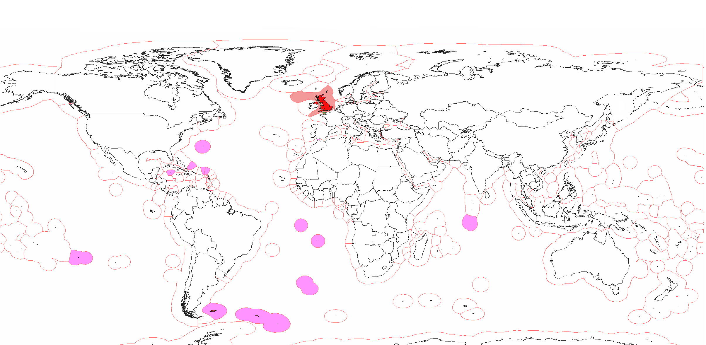 Combined Exclusive Economic Zones of the United Kingdom (light red), the British Overseas Territories (light purple), and the Crown Dependencies (green).